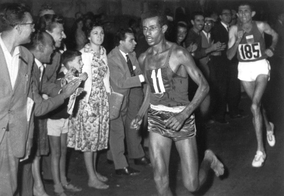 Abebe Bikila sprints away from Rhadi Ben Abdesselam near the end of the marathon at the 1960 Rome Olympics